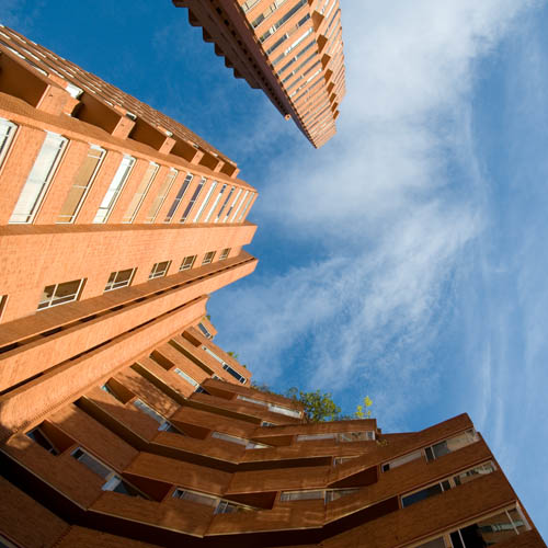 "Park Towers". Design by Rogelio Salmona. Three of the most distinctive buildings at Bogotá.